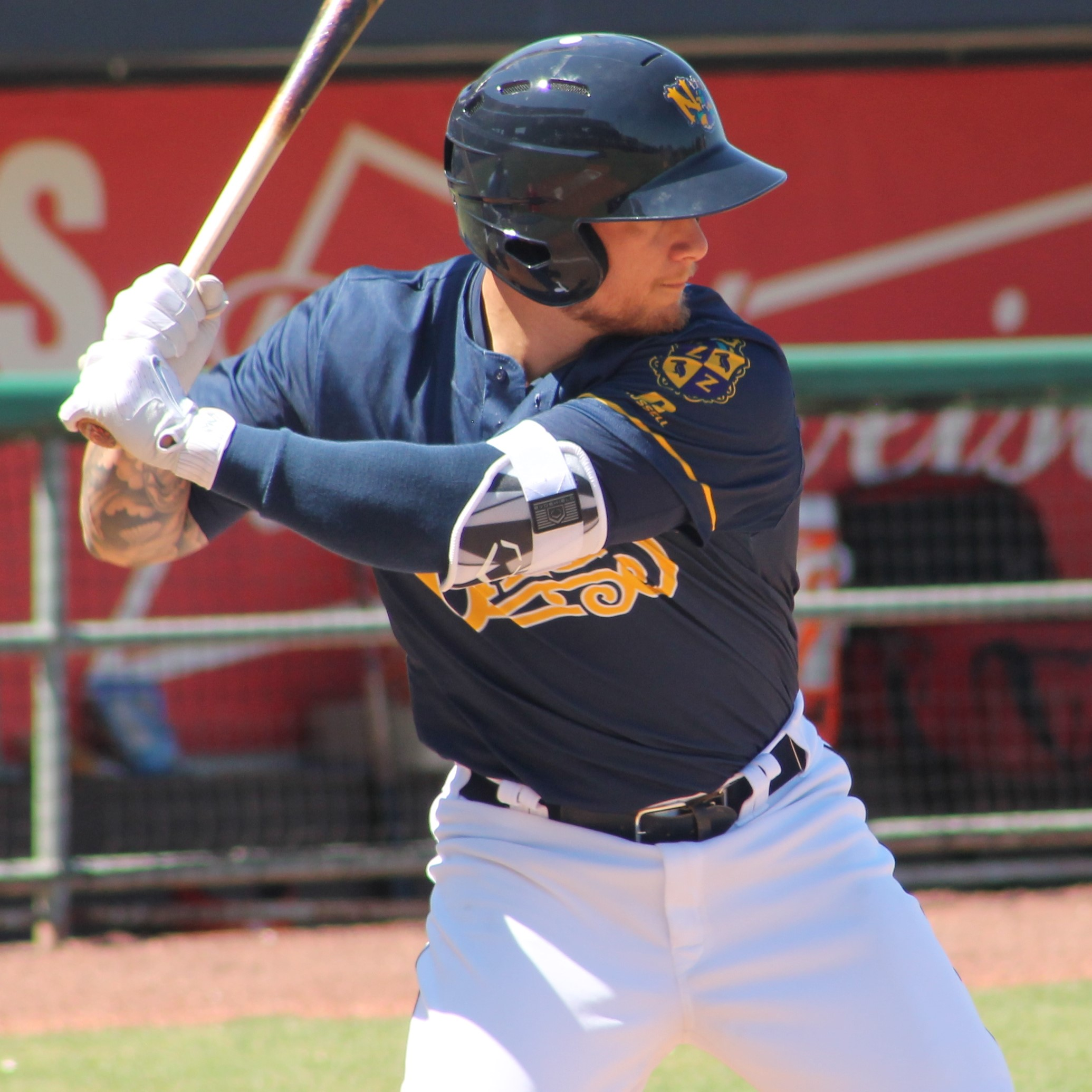 Professional baseball player Brandon Barnes during an April 2017 game in New Orleans.